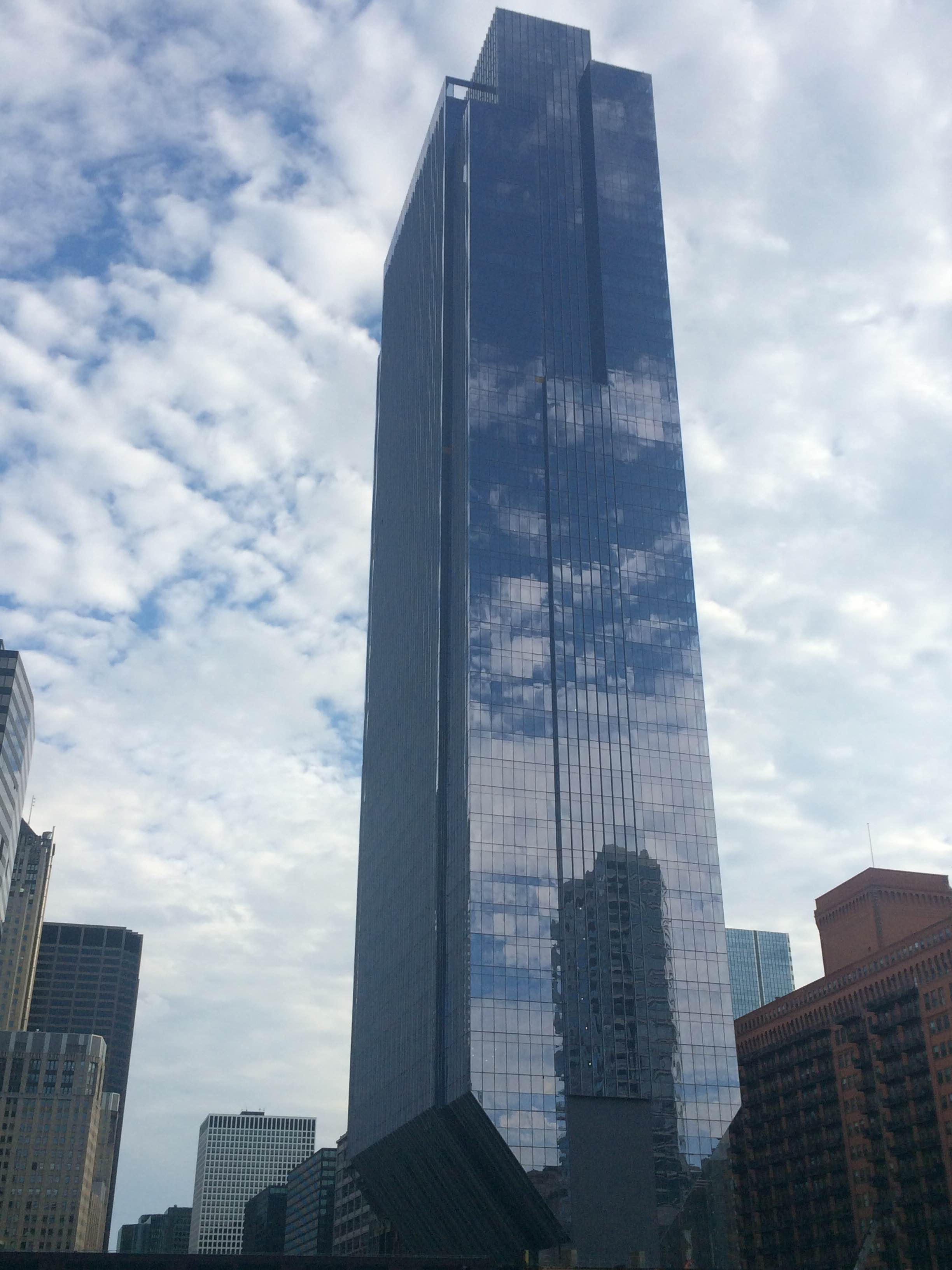 Picture of 150 N. Riverside Plaza building on Aug 26th 2016. The build is under construction.